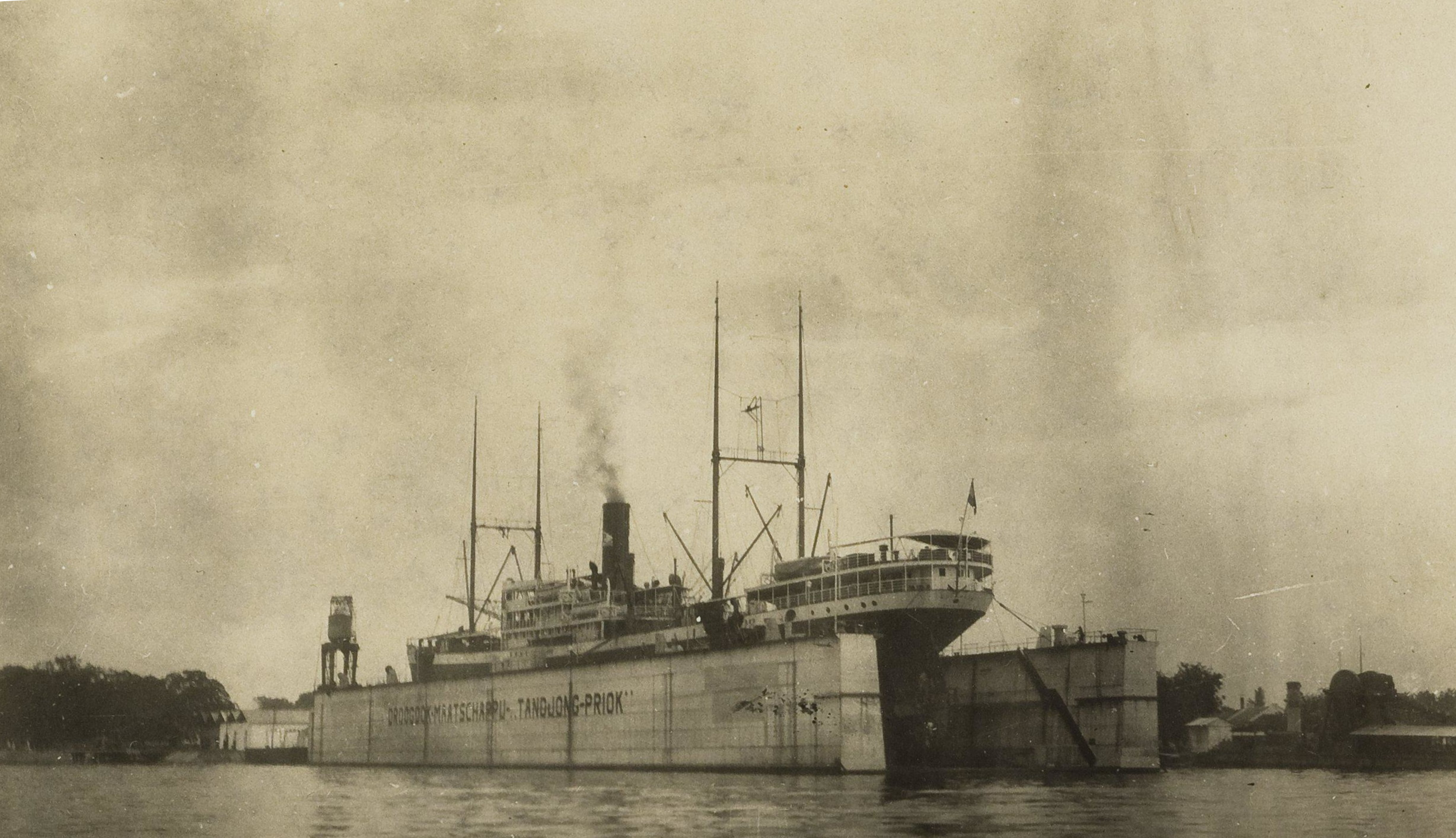 SS Tjisalak on Tanjung Priok Dock of 8000 tons c 1925. The photo is in an album of the Meyer family, descendants of an African soldier in Indonesia. Original caption: Tji Liwang (sic) under way to Poentjak.